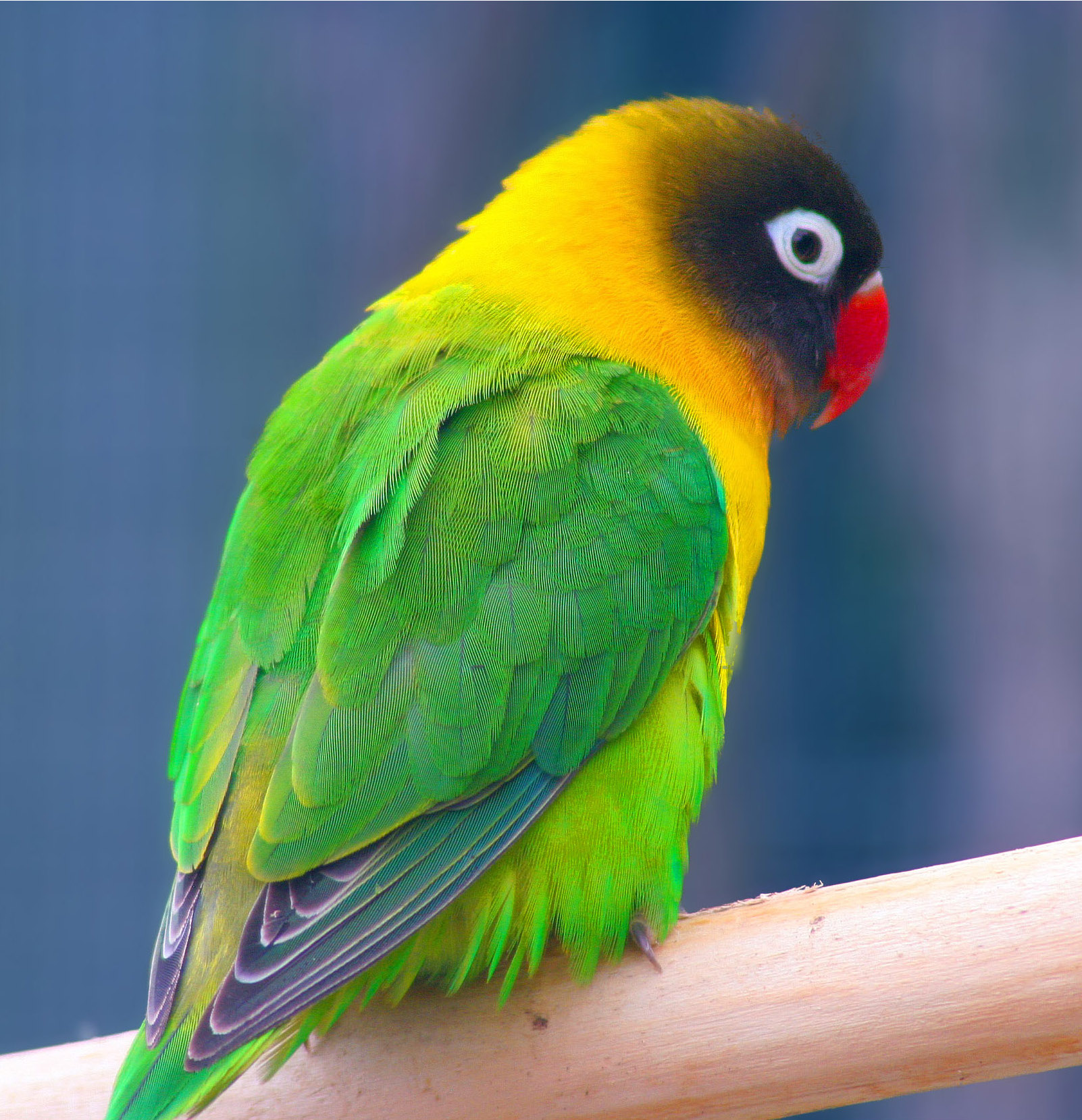 Masked Lovebird (Agapornis personata) at Auckland Zoo.